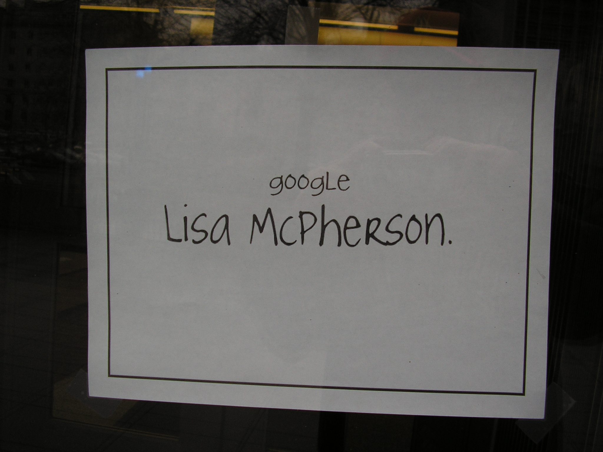 An anonymous picture protesting the mysterious death of Lisa McPherson on the campus of the University of Pittsburgh, taken January 29, 2008. The flier, one of many which appeared overnight across the campus, came during Project Chanology, a coordinated internet attack against the Church of Scientology. Although the flier is anonymous, it is indicative of tactics used by Project Chanology which have been reported in other media.